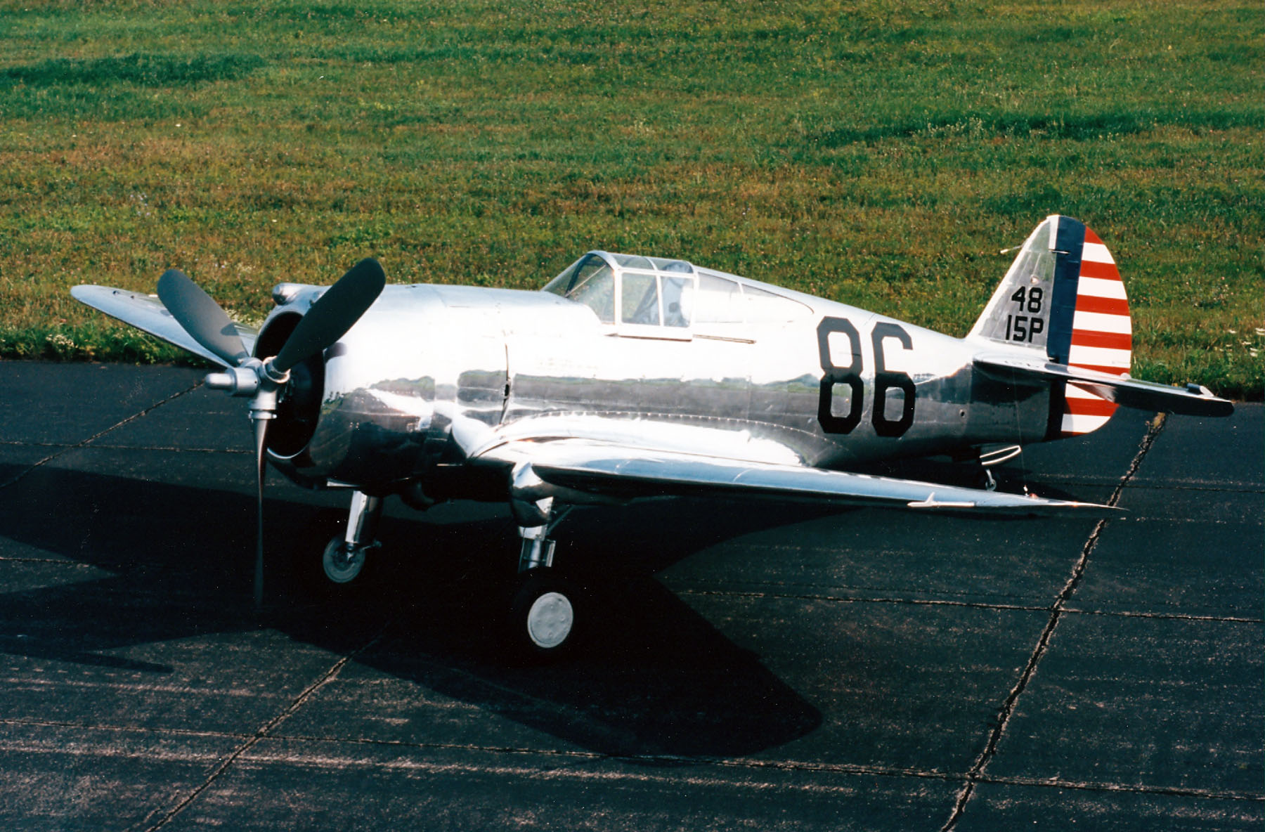 DAYTON, Ohio -- Curtiss P-36A Hawk at the National Museum of the United States Air Force. (U.S. Air Force photo)